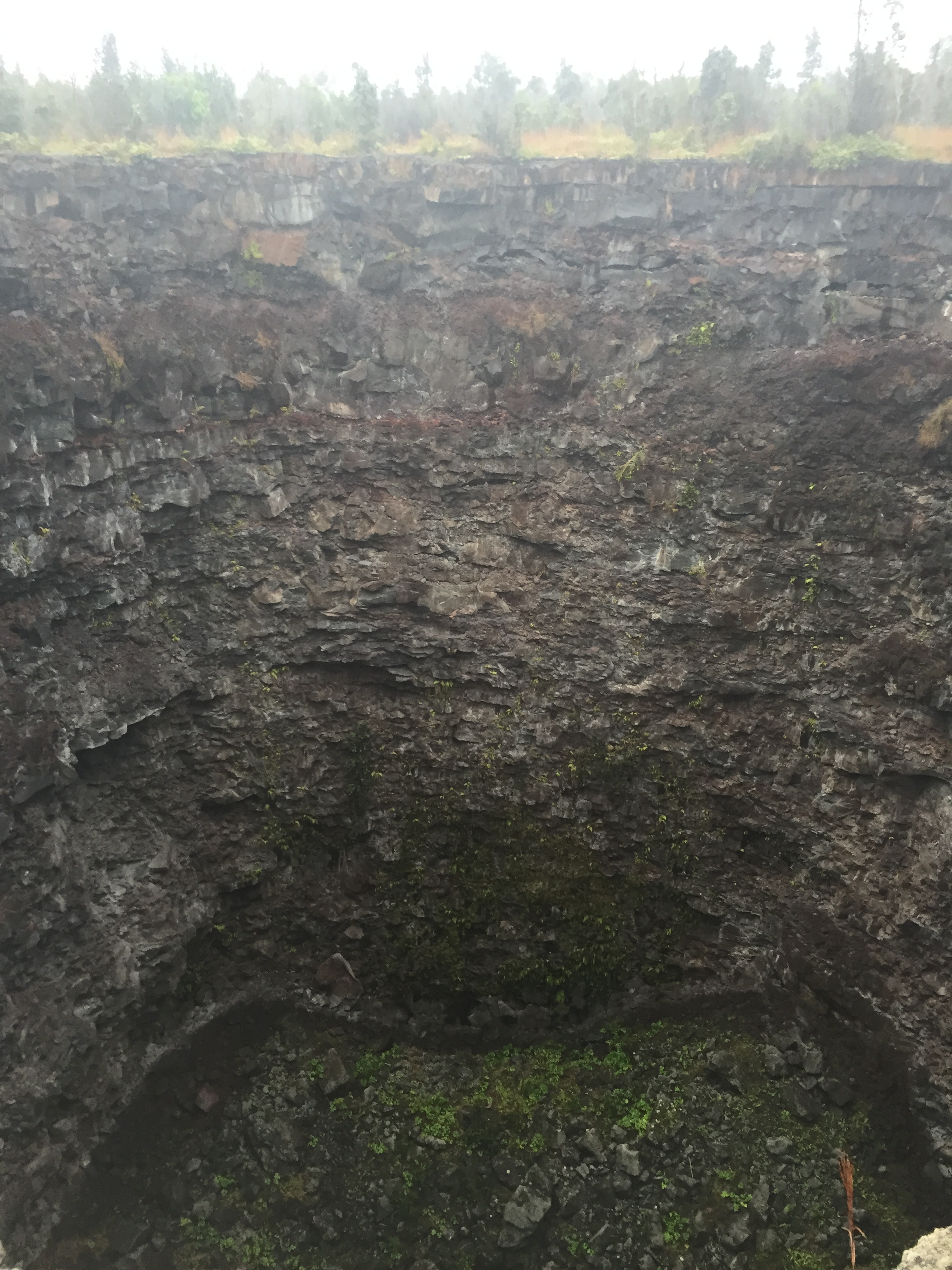 A portrait of Devil's Throat pit crater taken on 14 June, 2016 from the eastern rim, showing the entire western rim of the crater from the bottom accumulations of rubble to the eroding edge of the pit. At the time of the image, the size of the opening was approximately 172 +/- 6 feet large based on GPS coordinate offset measurements, and the pit approximately 166 +/- 20 feet deep, based on pebble drop times. From the 2006 measurements, this marks a noticeable increase in the crater rim size. As well as a curious minor increase in depth, but still well within the error bars to the previous measurement of 161 feet.